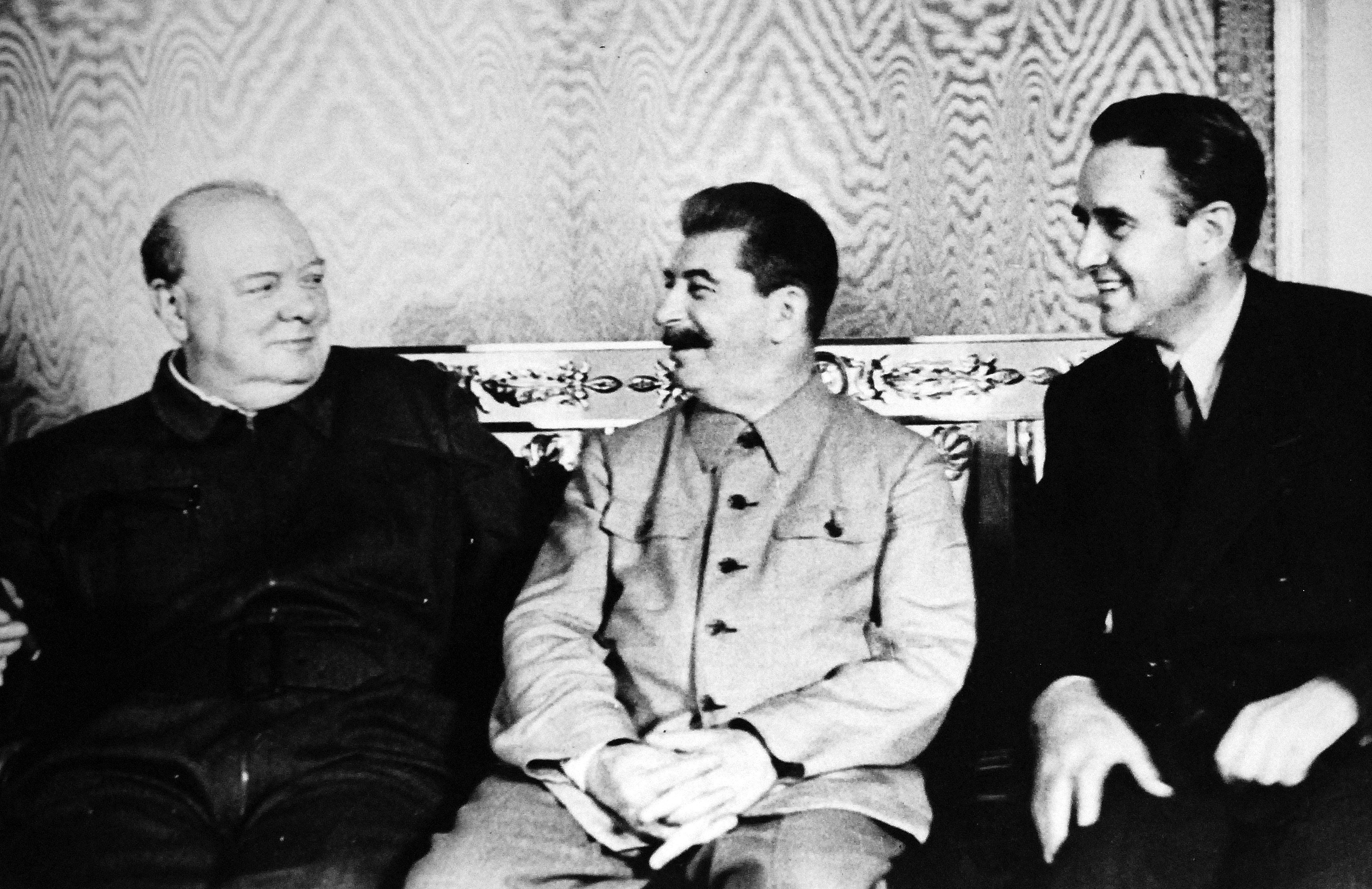 Lot 11596-7: Moscow Conference, August 12-17, 1942. Left to right, foreground: Prime Minister Winston Churchill; W. Averrell Harriman, representing President Franklin D. Roosevelt; and Premier Joseph Stalin. Office of War Information Photograph. (2016/01/15).